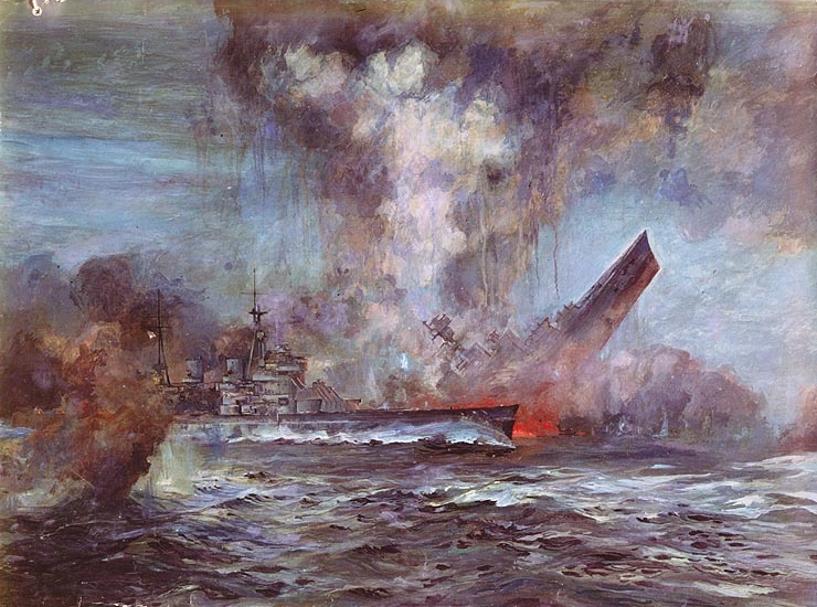 Painting by J.C. Schmitz-Westerholt, depicting Hood's loss during her engagement with the German battleship Bismarck on 24 May 1941. HMS Prince of Wales is in the foreground.